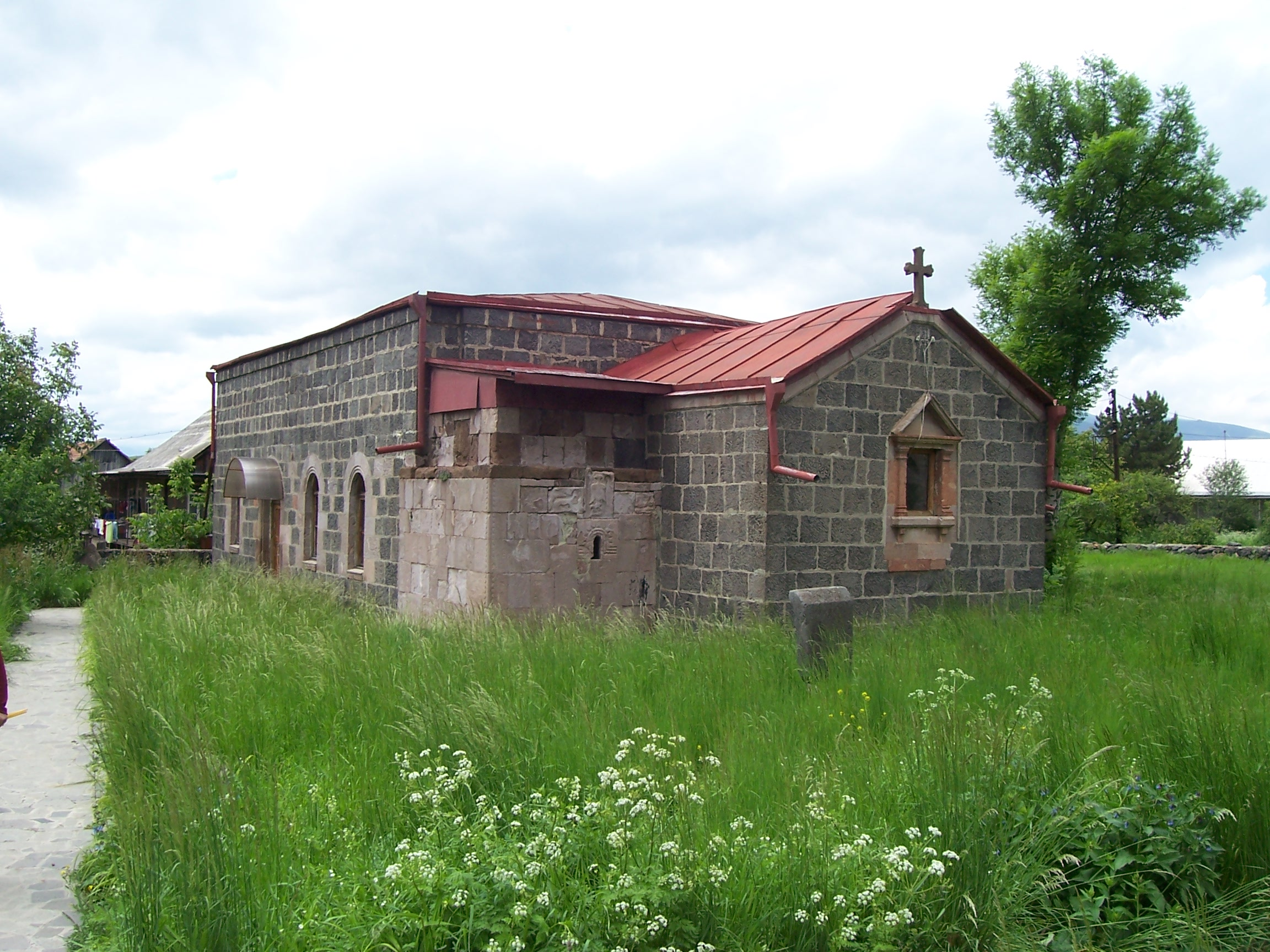 St Gregory the Illuminator Church of Dsegh located in front of the house-museum of Hovhannes Tumanyan